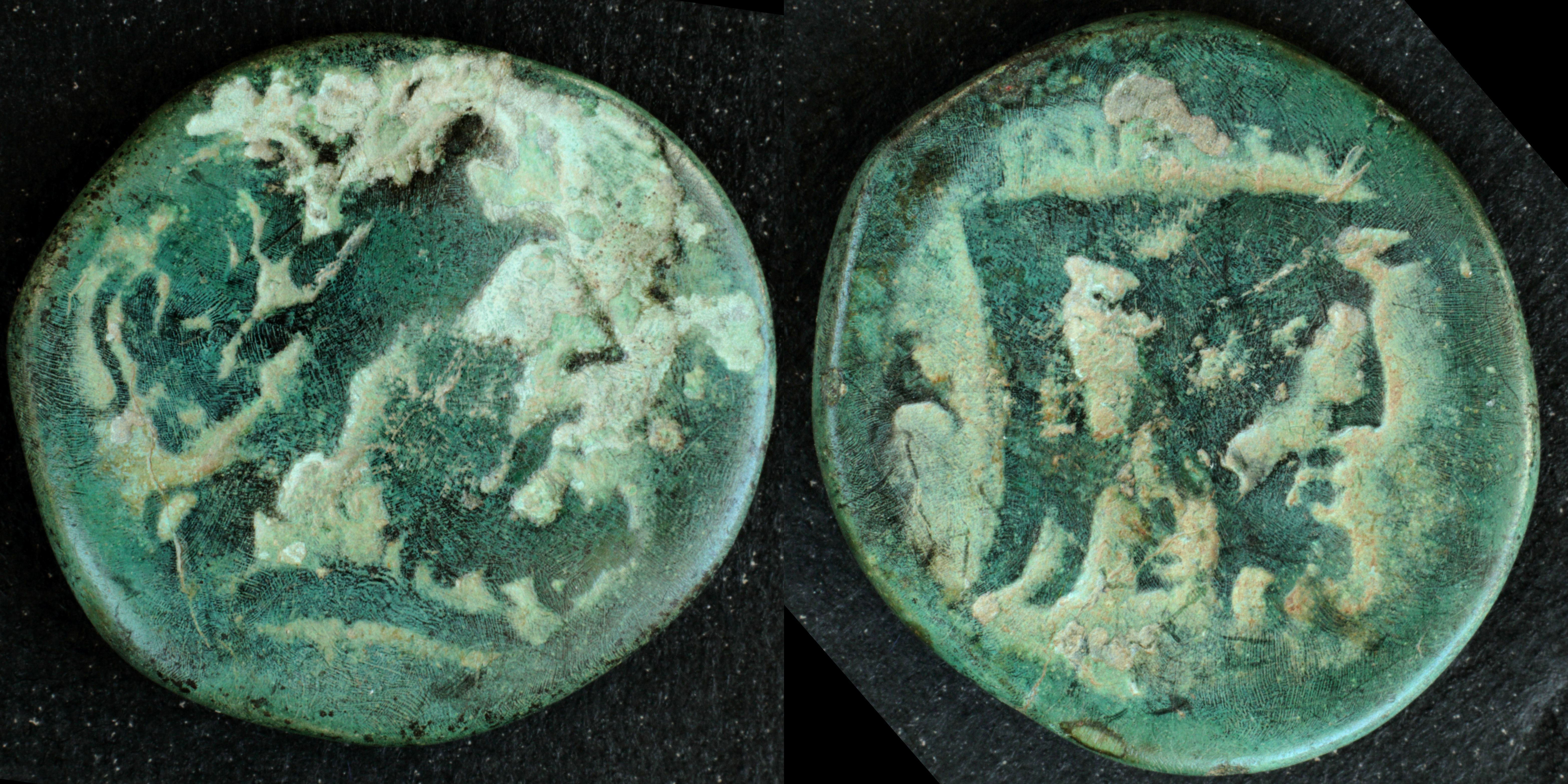 struck in Oiniadai 219-211 BC obverse: laureate head of Zeus right ΠPI under head reverse: head of the river-god (Potamoi) Achelous right OINIAΔAN above monogram (APK) behind head reference: BMC 189, 8; SNG Cop. 402; Winterthur I, 1853 weight: 5,97g